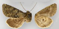 Lasionycta uniformis handfieldi female